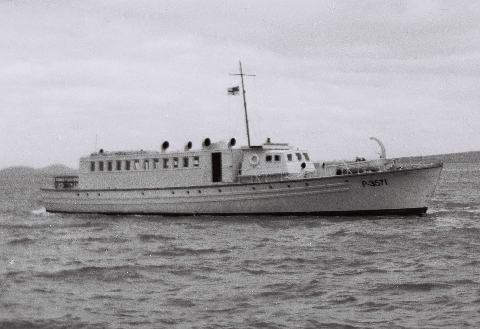 HMNZS Kahu I P-3571 (Fairmile B class) in the Waitemata Harbour, likely at some time in the 1950's